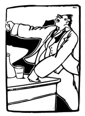 Caricature of the Romanian socialist parliamentarian and physician Nicolae L. Lupu, originally published in Revista Vremii.